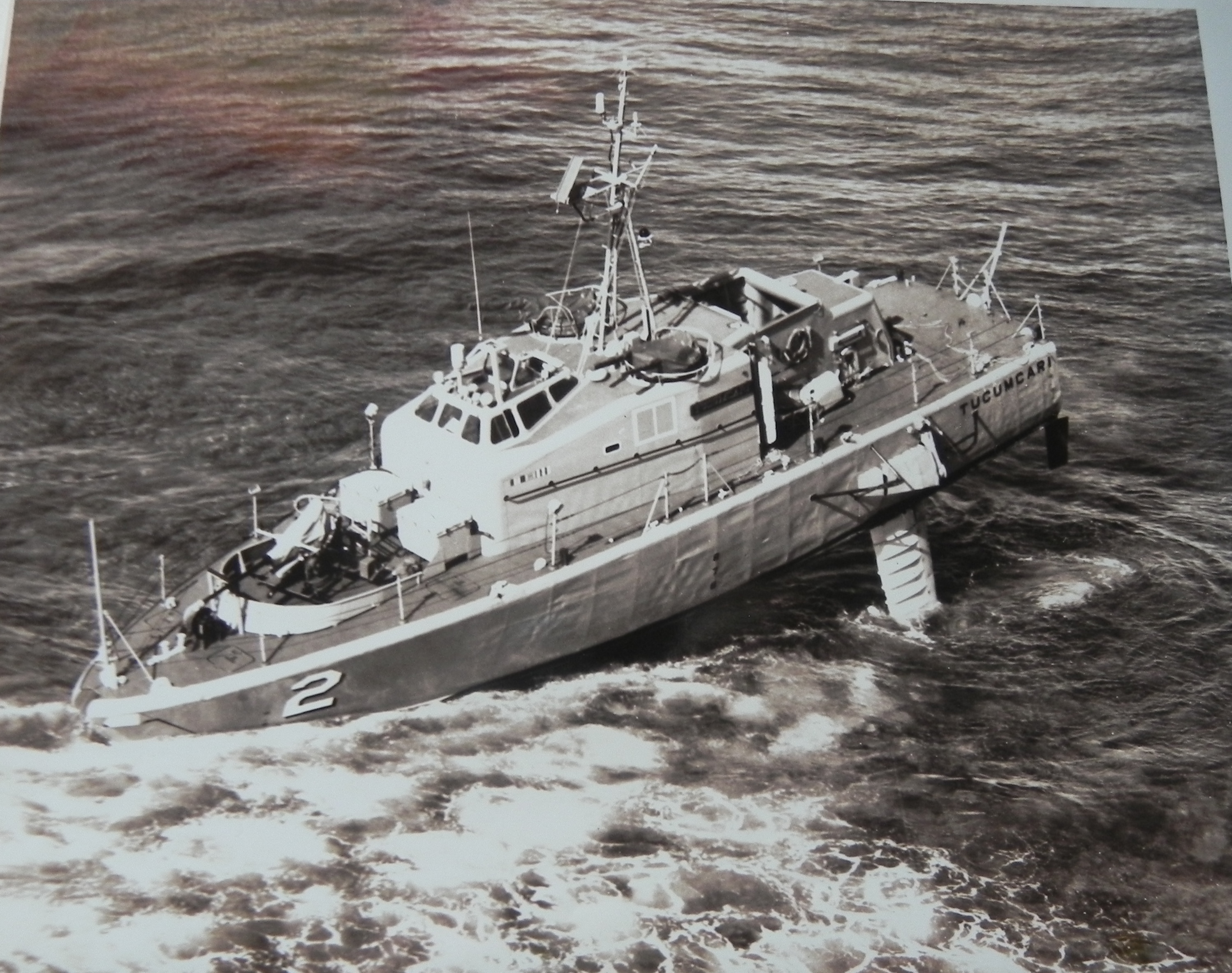 View of the grounded hydrofoil USS Tucumcari (PGH-2) on 16 November 1972. While participating in simulated combat operations with other amphibious forces off Vieques Island, Puerto Rico, she unexpectedly ran aground. Hitting a coral reef at 40+ knots, Tucumcari was stopped dead within the length of her hull, forcing the front strut aft and shearing off the port and starboard foils. Several crewmen were injured and two crewmen had to be air lifted by helicopter from the grounded vessel. The fate of Tucumcari was sealed during salvage operations. While attempting to blast the boat free from the coral reef using explosives, further damage was incurred. The damage was so severe that it was deemed uneconomical to repair.